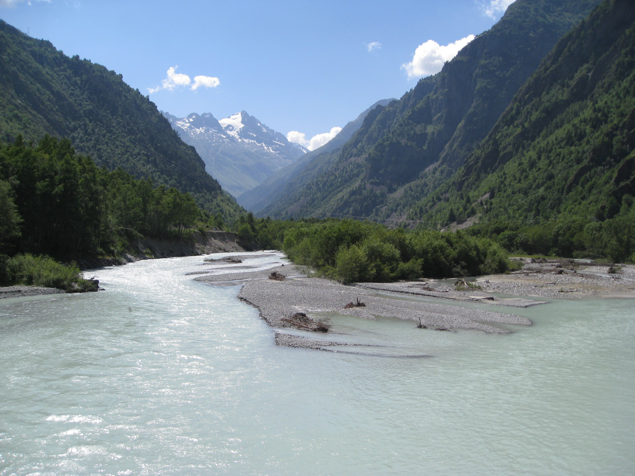 View on the Vénéon River near Venosc. Photo by Tim Bekaert.